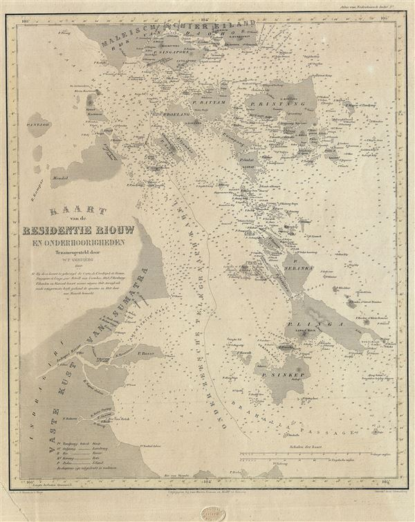 The map of Riau Islands (1860(